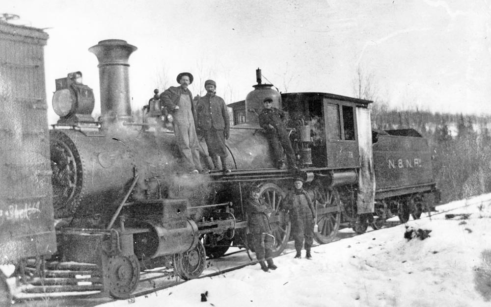 The JR Booth was the only engine to work the Nosbonsing and Nipissing Railway, a 5.5 mile long portage railway in central Ontario. The railway carried logs from Lake Nipissing to Lake Nobonsing, where they could reach the Mattawa River, and ultimately Booth's mill in Ottawa. National Archives Photo PA213288